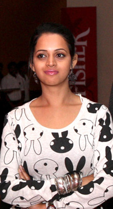 Bhavna snapped at CCL2 party, Vizag, India, 2011.